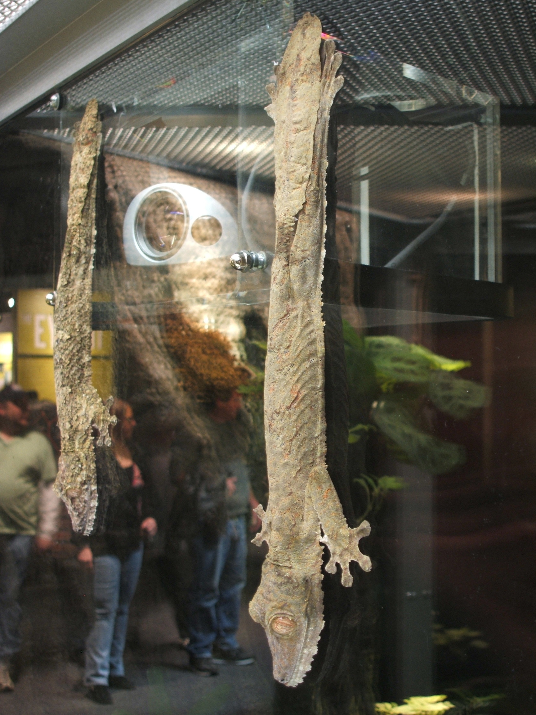 Two leaf-tailed geckos (Uroplatus henkeli) sticking head-down to a glass wall of a display at the Boston Museum of Science